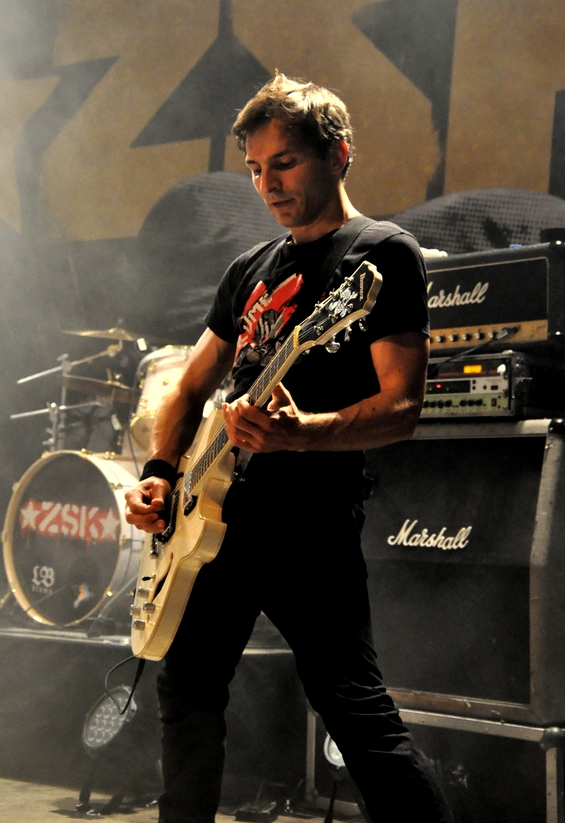 Beni of ZSK at Kein Bock auf Nazis Festival, Düsseldorf 2013